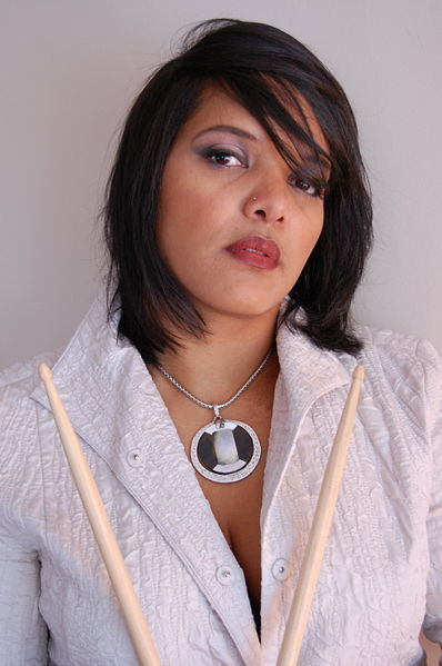 The author and owner of this photo is our company, Sonic Portraits. We have full rights and use of this work.